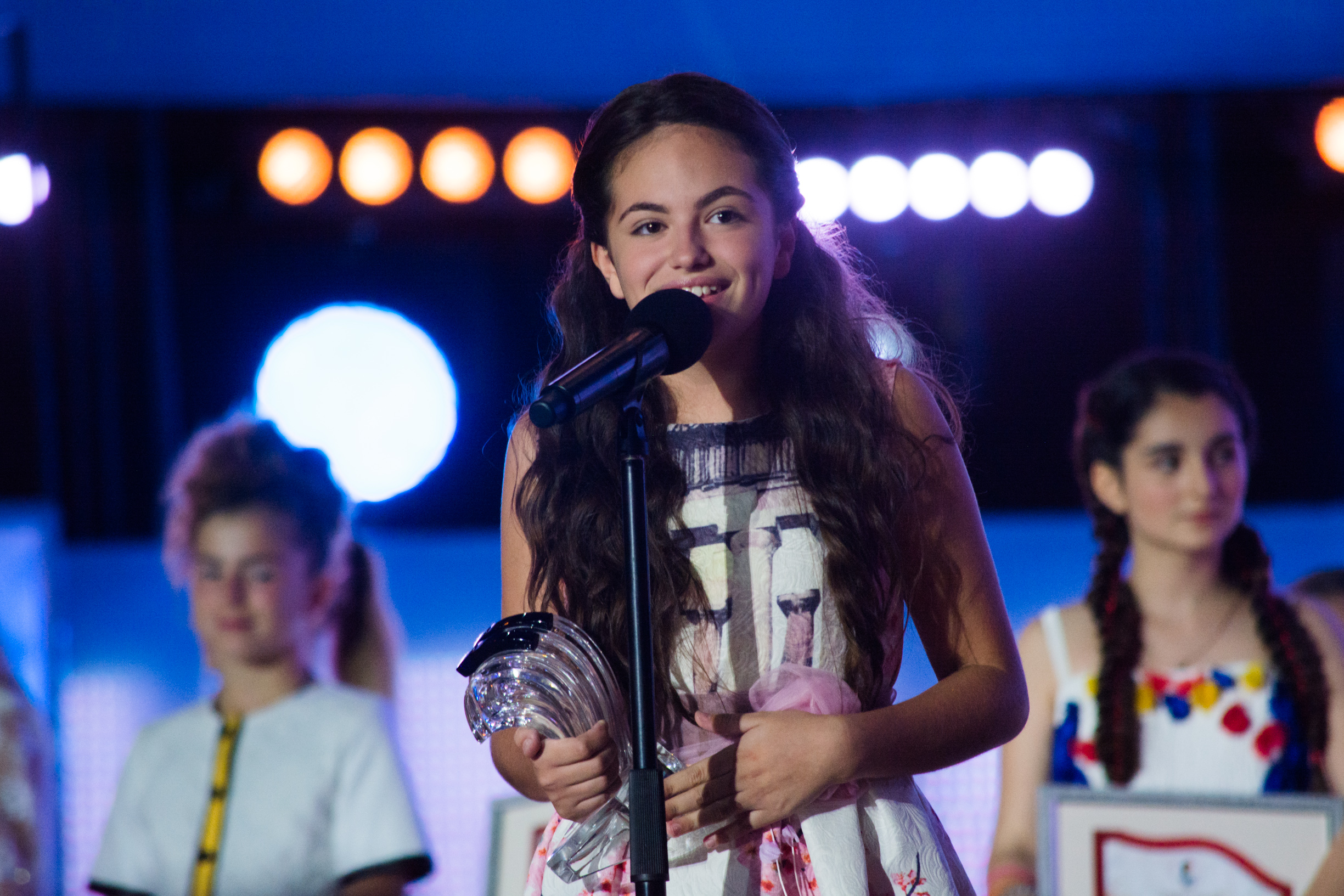 Gaia Cauchi at New Wave Junior 2015